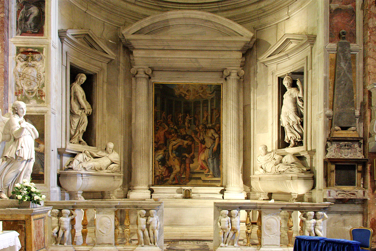 Cappella del Monte in the Church of San Pietro in Montorio (Rome). Designed by Giorgio Vasari, the ceiling of the chapel contains the fresco The Conversion of St. Paul, by Vasari. On each side, tombs of Antonio and Fabiano del Monte with statues of Justice and Religion sculpted by Bartolomeo Ammannati.